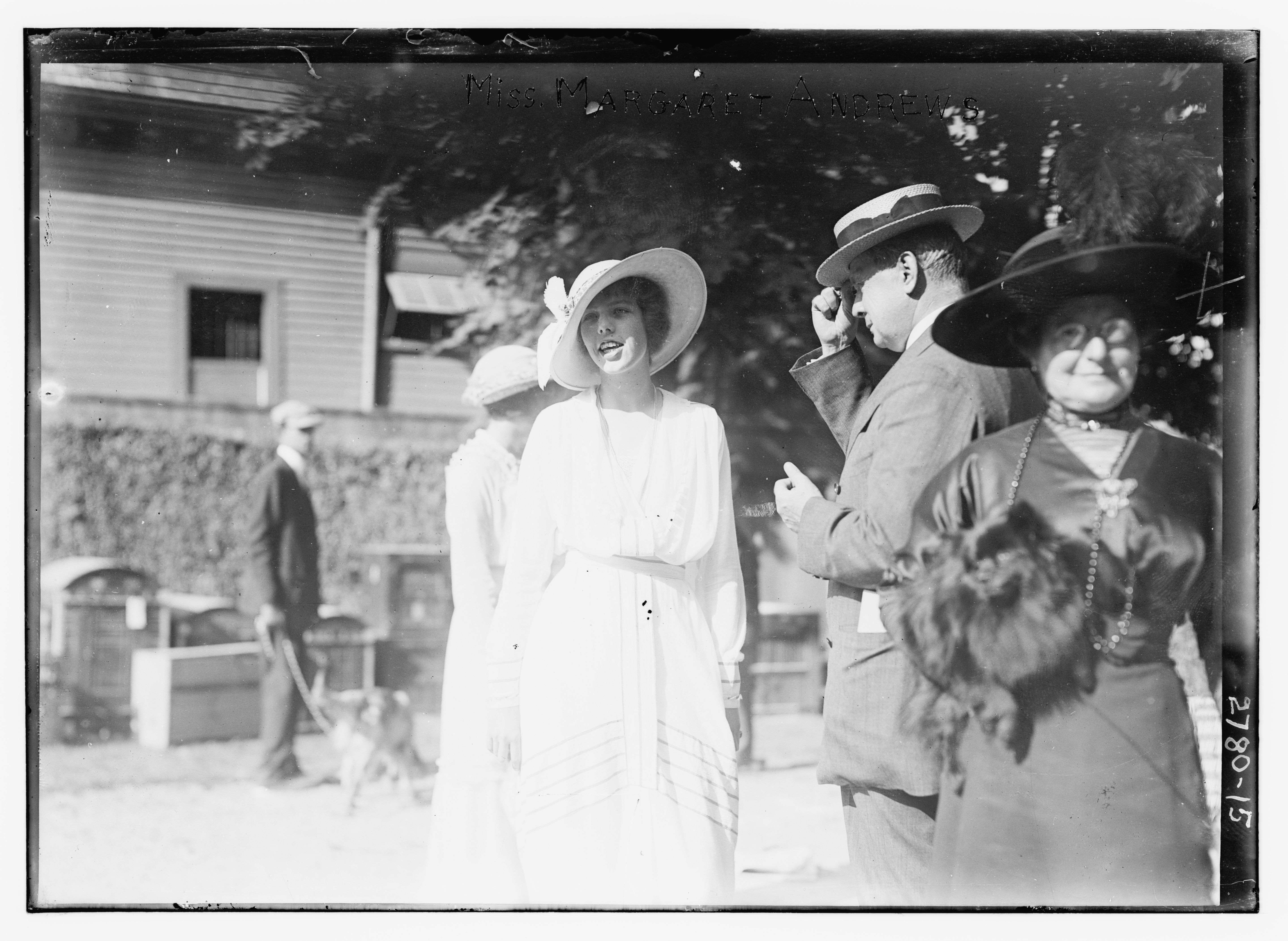 Bain News Service, publisher. Miss Margaret Frances Andrews [no date recorded on caption card] 1 negative : glass ; 5 x 7 in. or smaller. Notes: Title from unverified data provided by the Bain News Service on the negatives or caption cards. Forms part of: George Grantham Bain Collection (Library of Congress). Format: Glass negatives. Repository: Library of Congress, Prints and Photographs Division, Washington, D.C. 20540 USA, General information about the Bain Collection is available at Persistent URL: Call Number: LC-B2- 2780-15